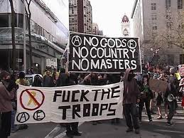 Anarchists carrying a banner with the slogan 'no gods no masters'